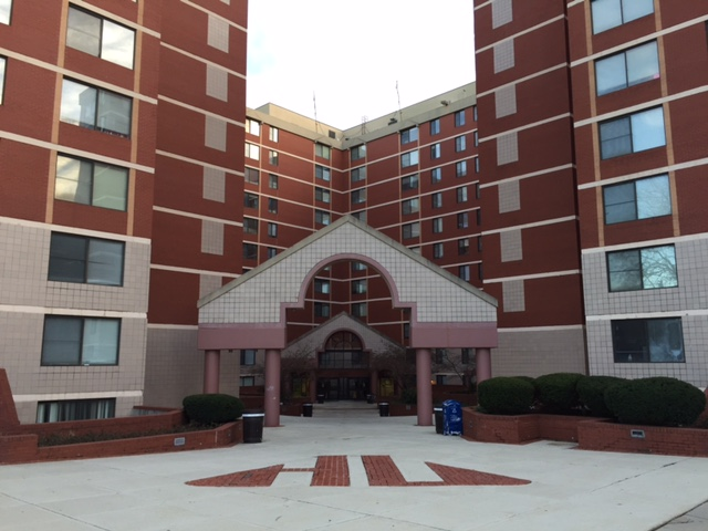 Howard University Towers East is one of several residential halls located on-campus at Howard University. The "East Towers" is one of the undergraduate student dormitories.